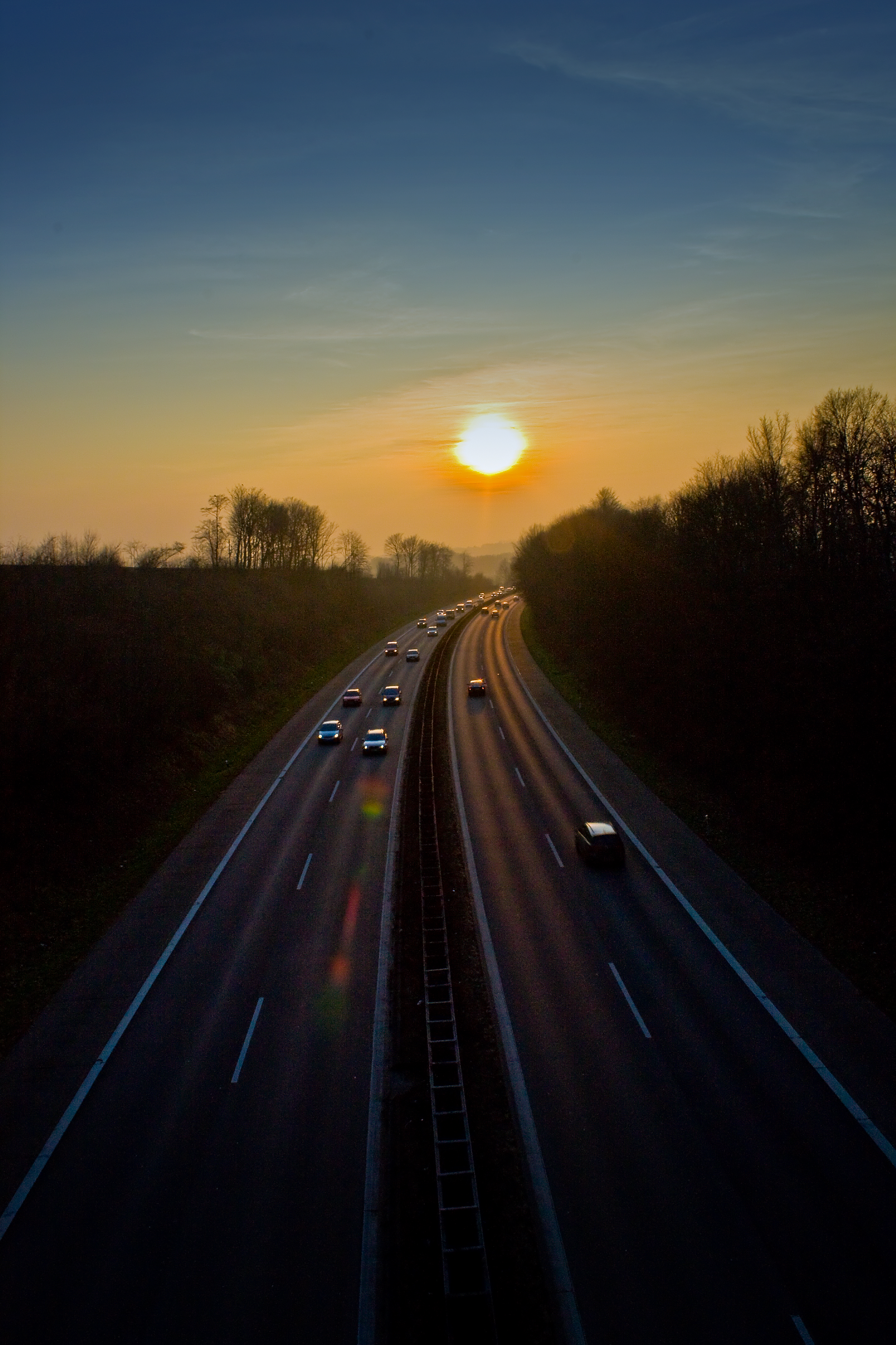 The German Freeway (Autobahn) A52